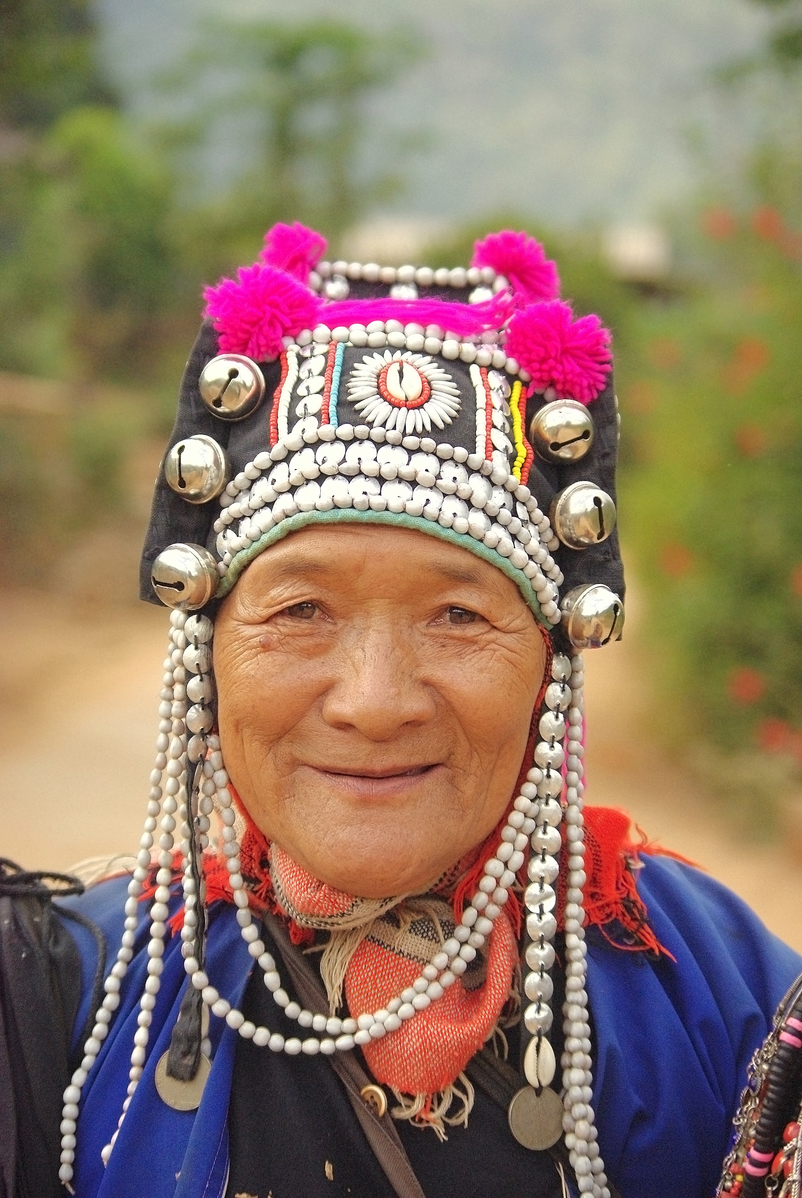 Akha woman in Headdress